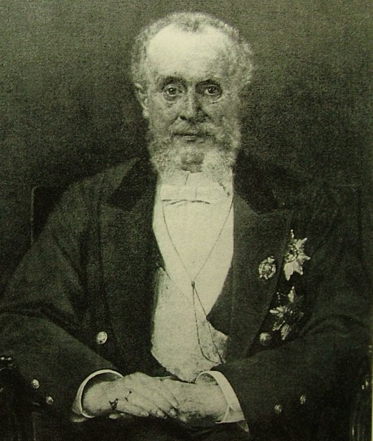 Nikolay de Girs - (1820-1895) - ministr of Russia